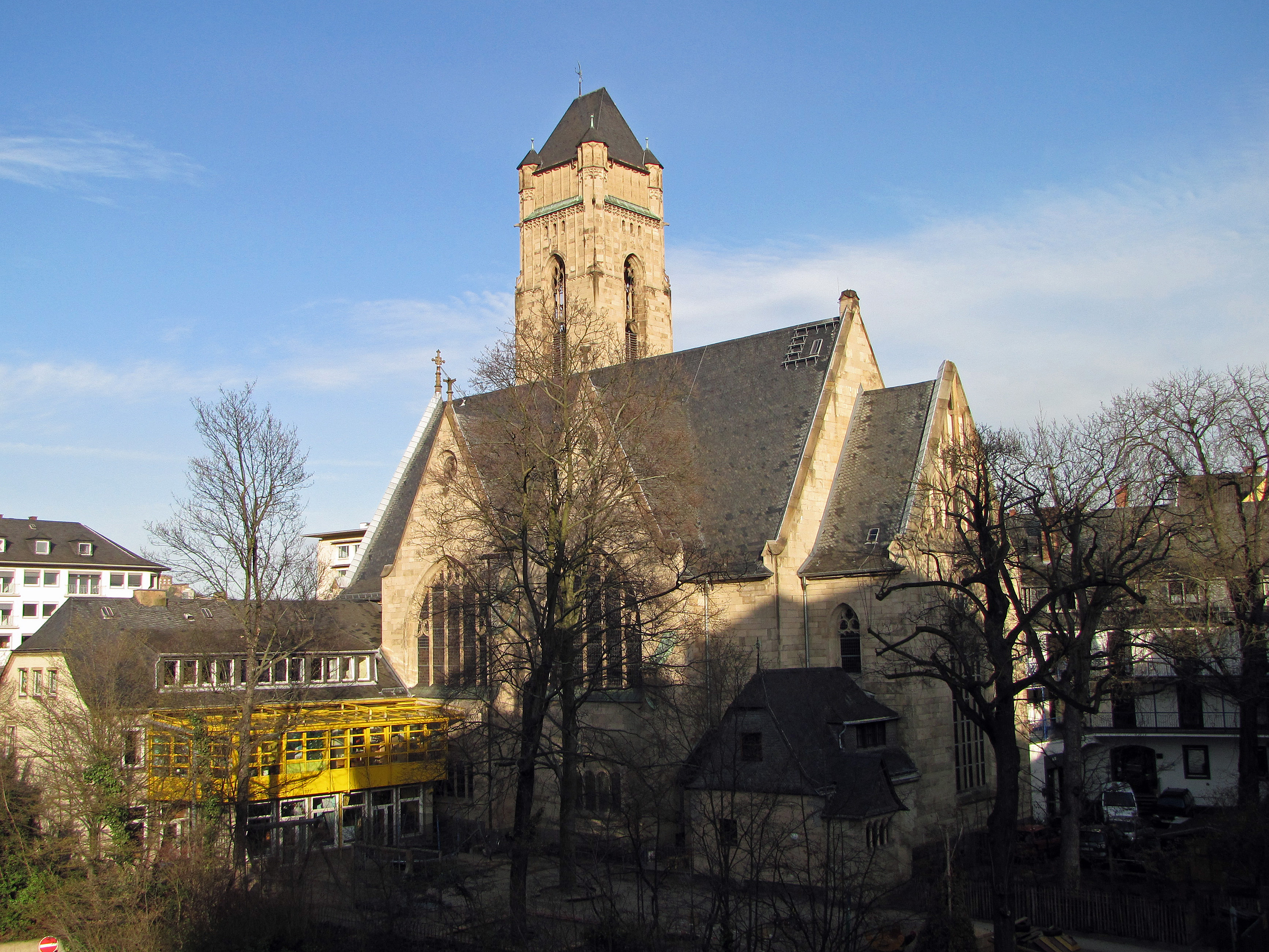 Christuskirche in Koblenz